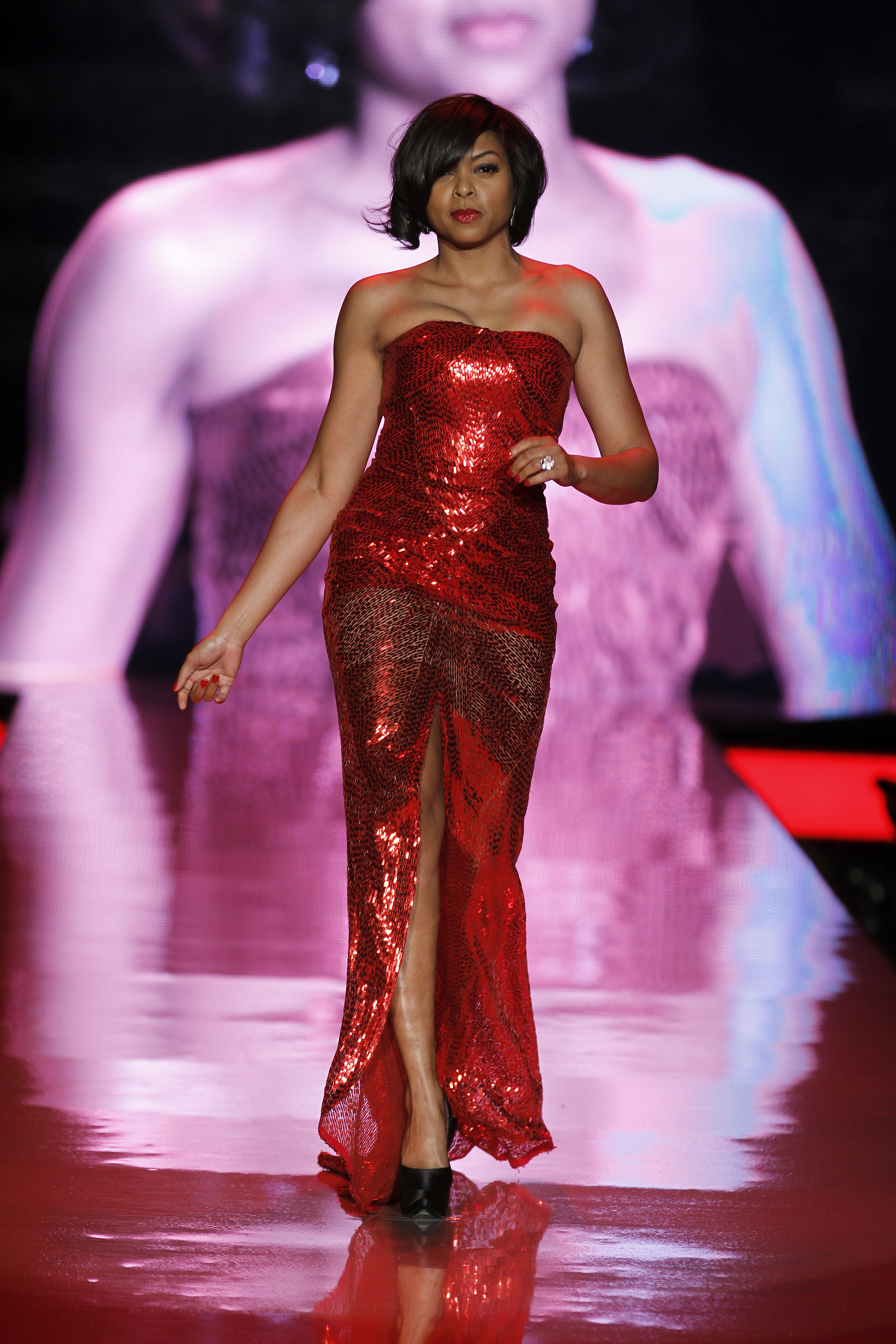 Making its debut at the Lincoln Center venue, The Heart Truth’s Red Dress Collection Fashion Show unveiled its 2011 collection of red dresses designed to celebrate the Red Dress as the national symbol for women and heart disease awareness. More than 20 of today’s top celebrities walked the runway in red dresses by America’s top designers to inspire women to take action to protect their heart health. The Heart Truth® is a national awareness campaign for women about heart disease sponsored by the National Heart, Lung, and Blood Institute (NHLBI), part of the National Institutes of Health, U.S. Department of Health and Human Services (HHS). ® The Heart Truth, its logo and The Red Dress are registered trademarks of HHS. Participation by Mercedes-Benz Fashion Week, Diet Coke, Swarovski, AOL, and Bobbi Brown does not imply endorsement by HHS.